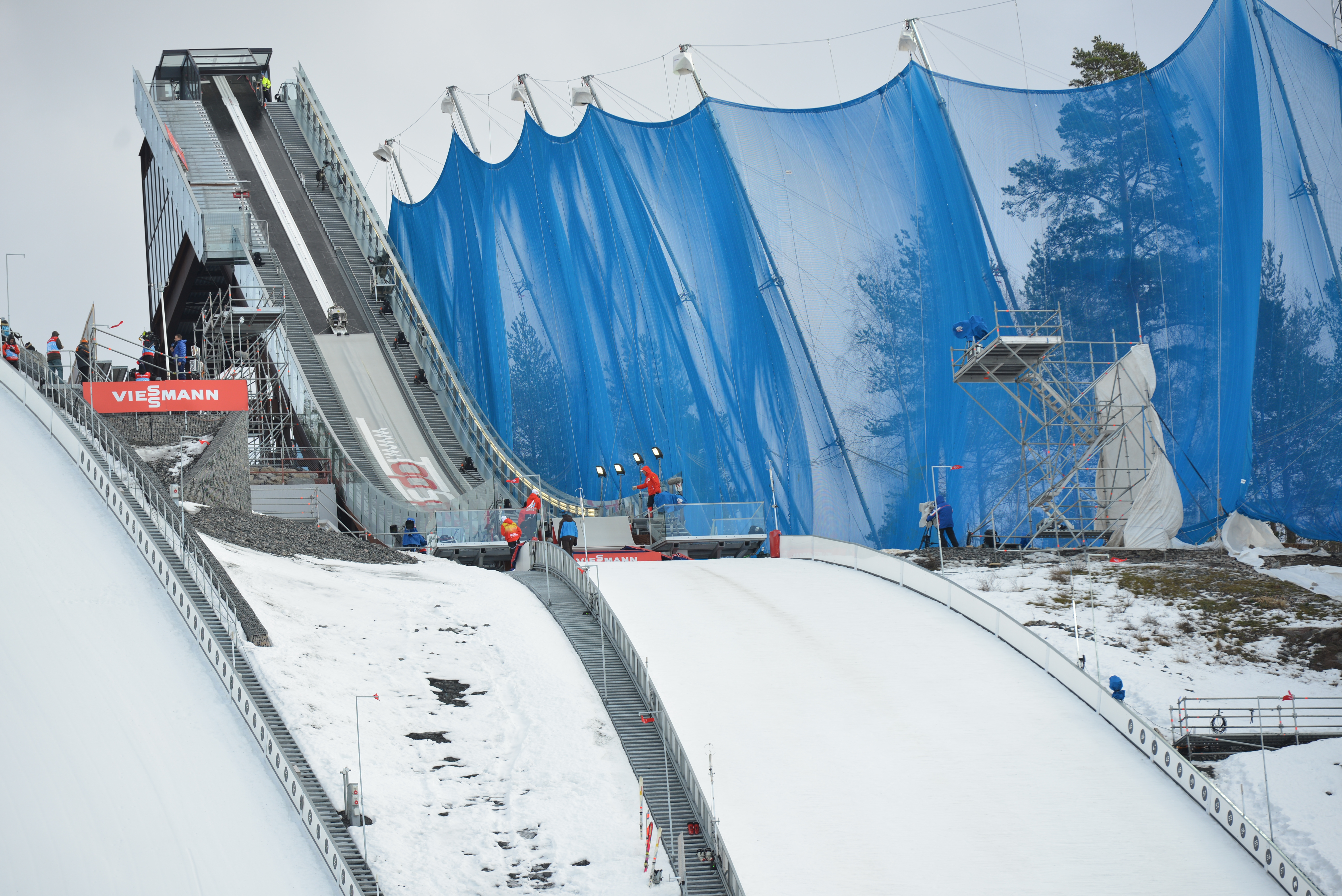 The normal ski jumping hill (HS100) with the wind nets at the FIS Nordic World Ski Championships 2015 in Falun